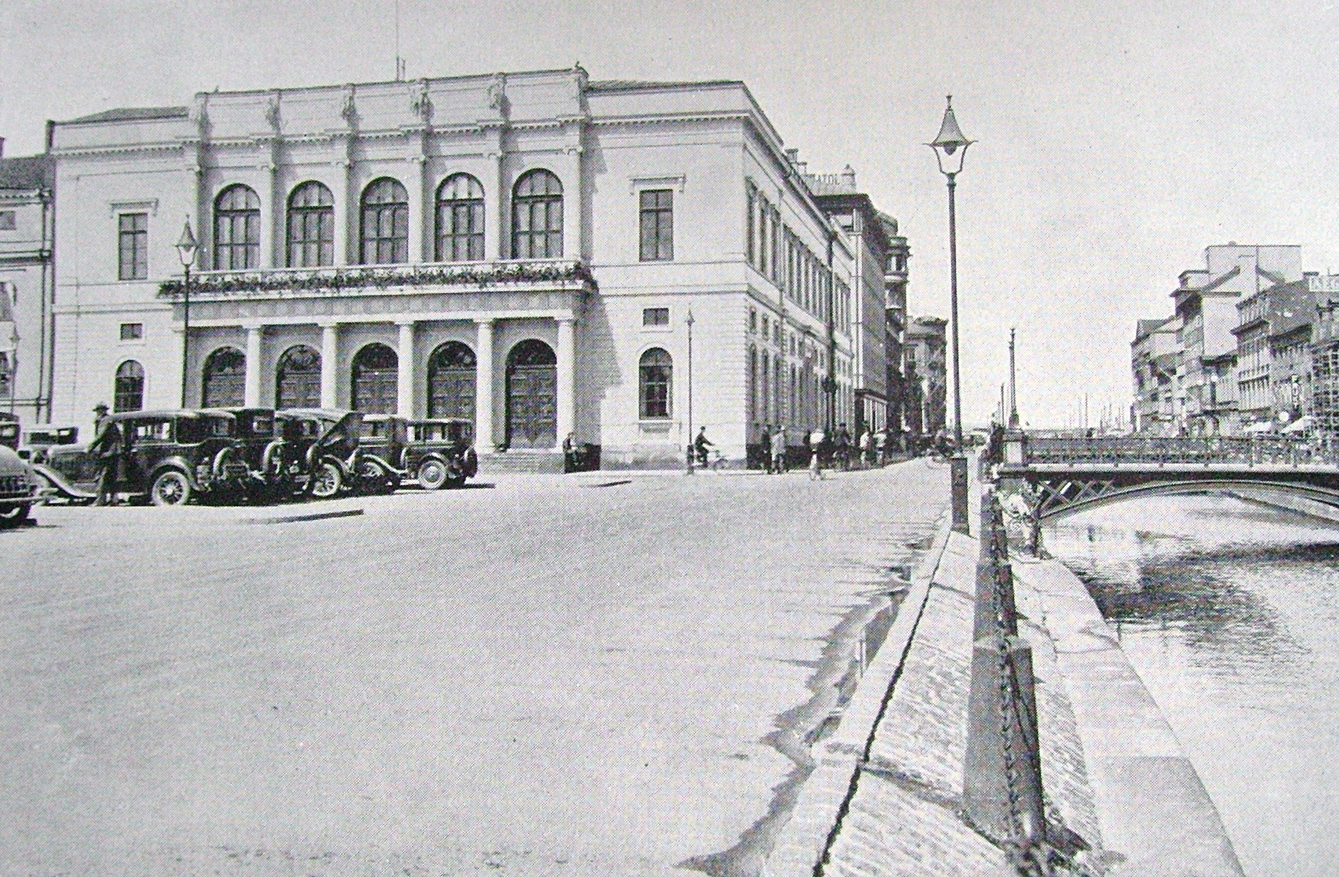 Picture of Börsen (buildning) at Gustaf Adolfs torg in Göteborg, beginning of 1930s